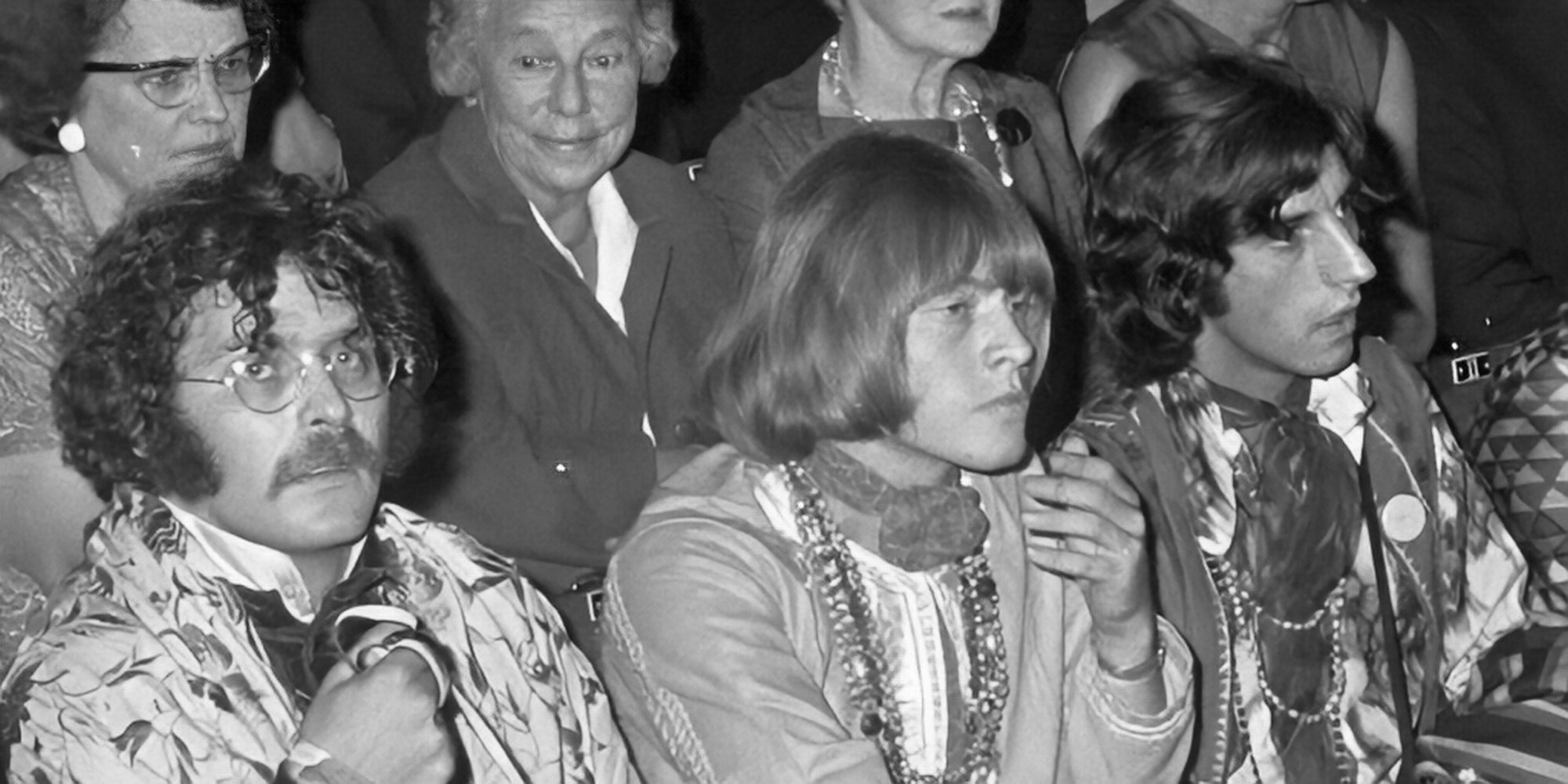 Audience at a performance by the Maharishi Mahesh Yogi, Concertgebouw Amsterdam, 1 Sept. 1967. From left to right: Shepard Sherbell, Brian Jones and Michael Cooper